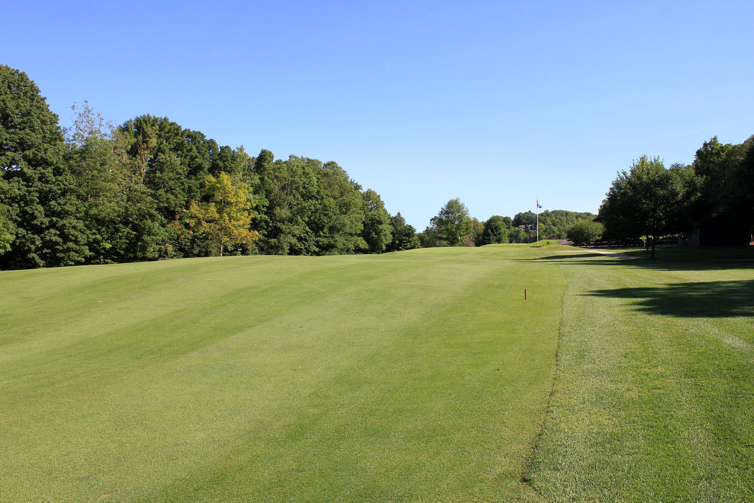 Peninsula State Park is a large state park covering 3776 acres that sits in Door County on the Green bay shoreline. There are scenic views of the bay, plays at A look down the golf course at Peninsula State Park